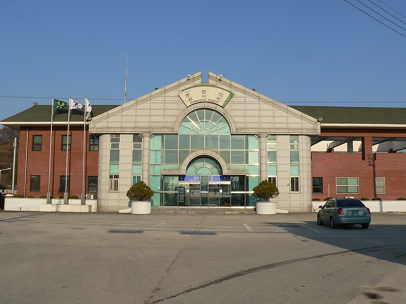 KORAIL Gwanchon Station